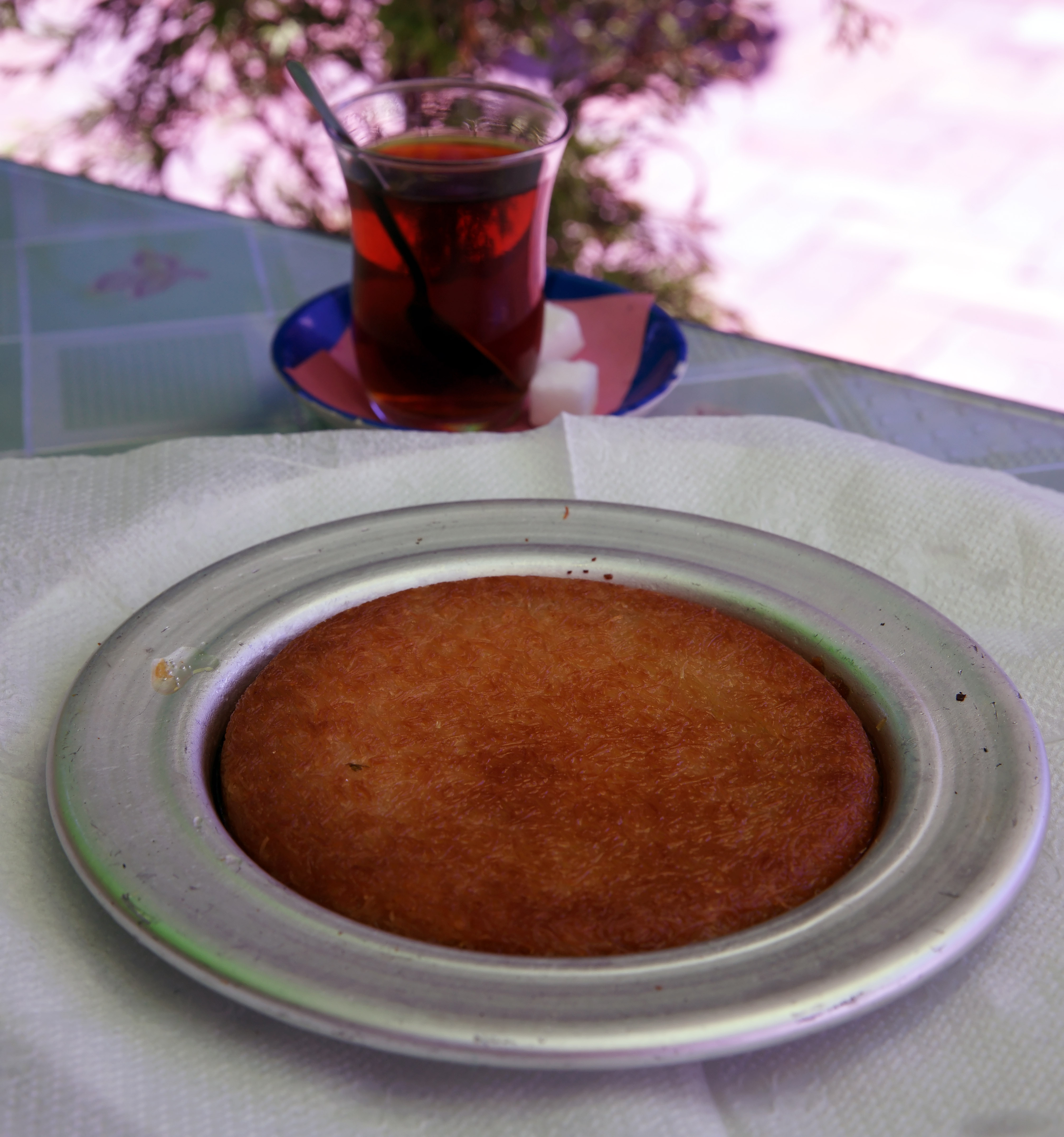 Turkish künefe (Antakya künefesi, from Hatay) and a glass of Turkish tea (çay).